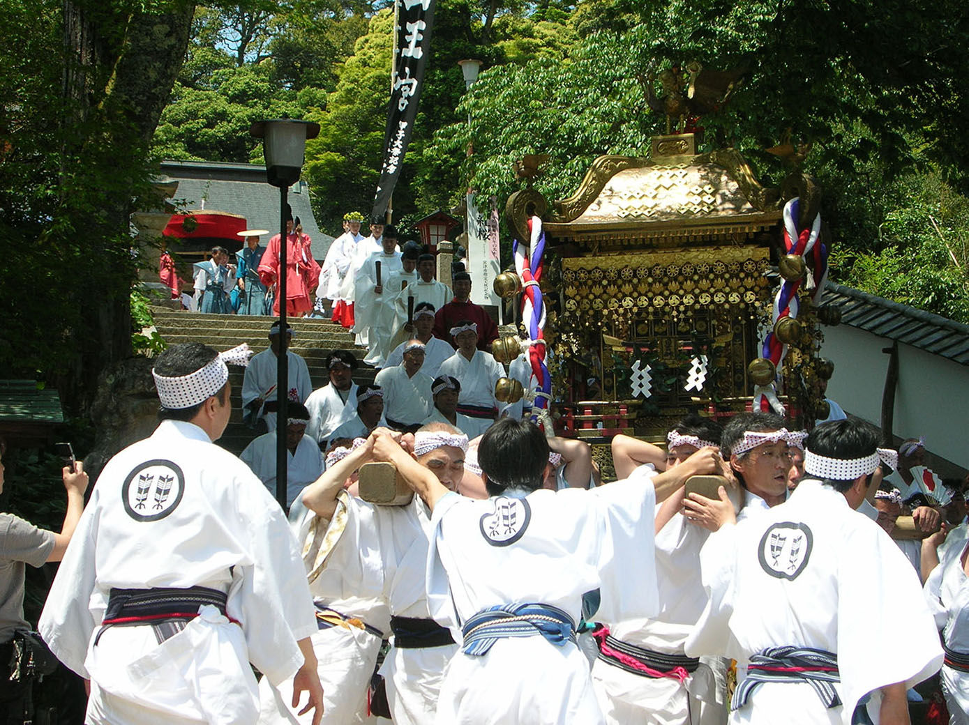 SannouMatsuri Mikoshi in Miyazu Sannogu-Hiyishi shrine,Miyazu,Kyoto,Japan.